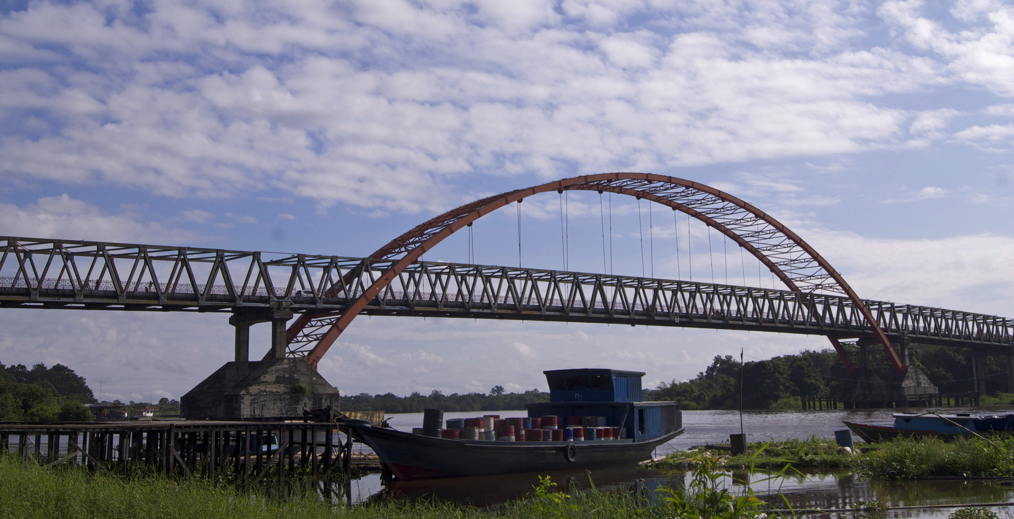 Kahayan Bridge, Palangka Raya, Central Kalimantan, Indonesia